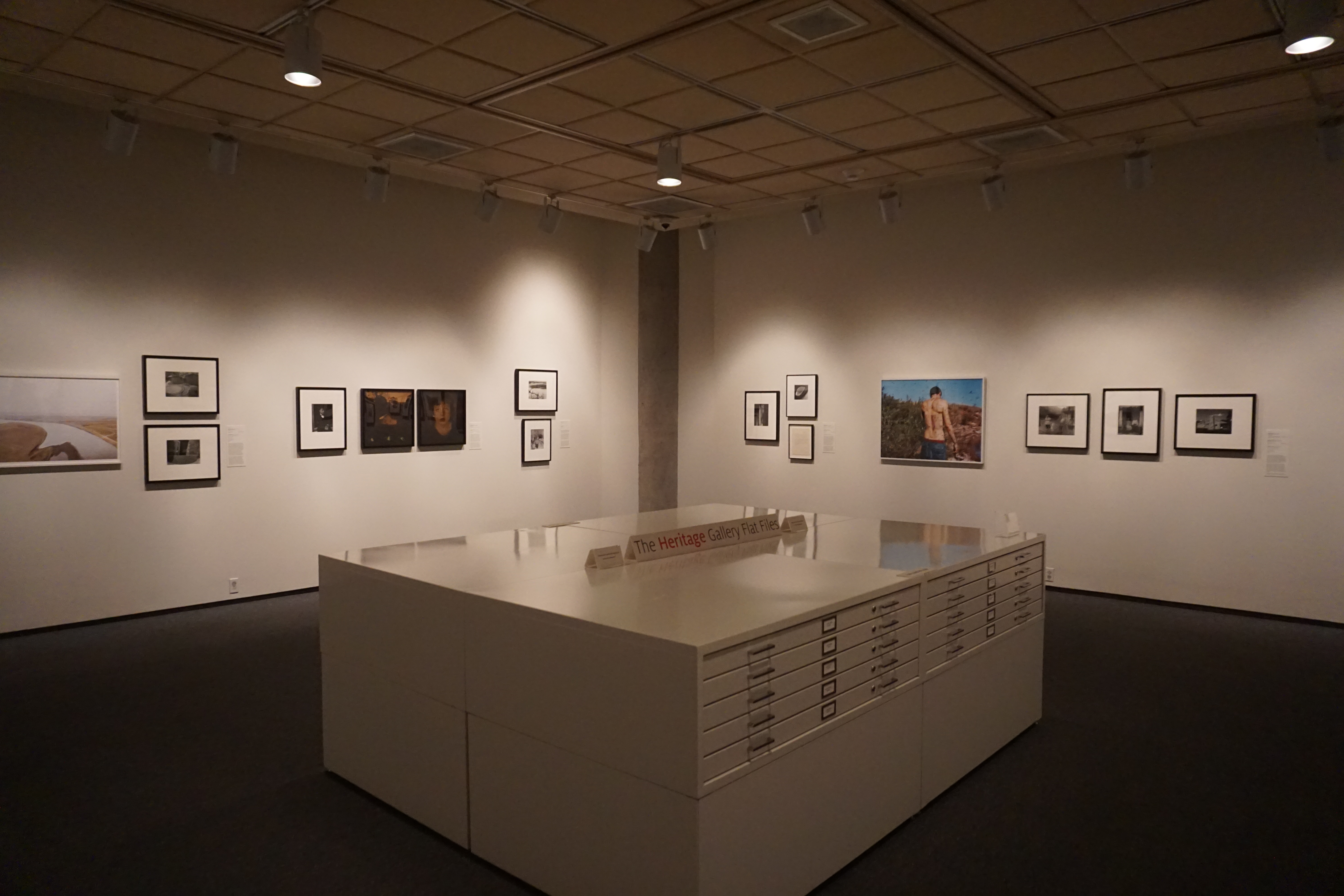 The interior of the Center for Creative Photography on the campus of the University of Arizona in Tucson, Arizona (United States).